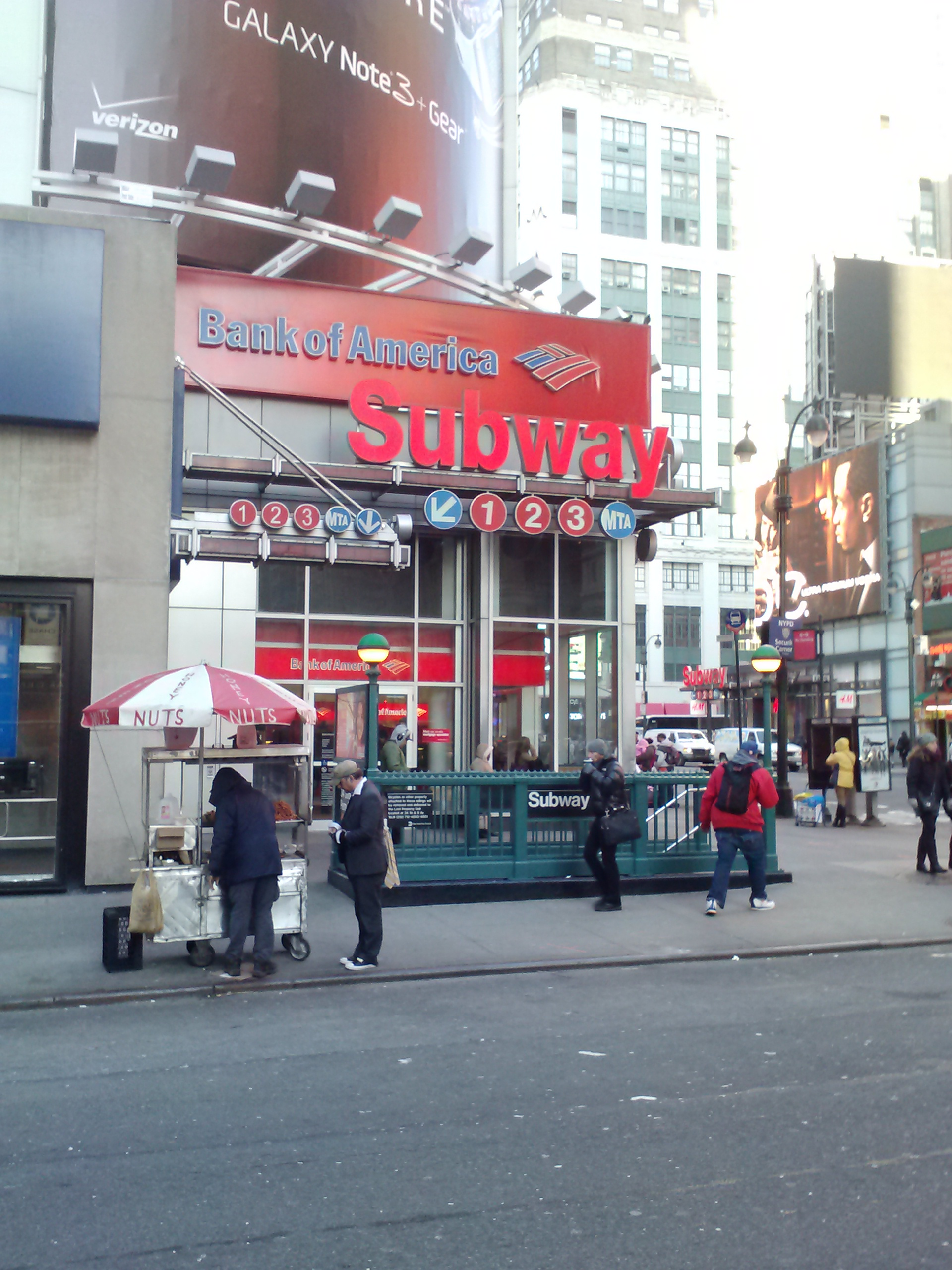 Near Penn Station and MSG